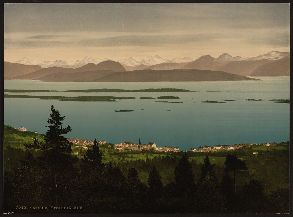 [General view, Molde, Norway] [between ca. 1890 and ca. 1900]. 1 photomechanical print : photochrom, color. Notes: Title from the Detroit Publishing Co., Catalogue J--foreign section. Detroit, Mich. : Detroit Publishing Company, 1905. Print no. 7078. Forms part of: Landscape and marine views of Norway in the Photochrom print collection. Subjects: Norway--Molde. Format: Photochrom prints--Color--1890-1900. Repository: Library of Congress, Prints and Photographs Division, Washington, D.C. 20540 USA, Part Of: Landscape and marine views of Norway (DLC) 2001699563 More information about the Photochrom Print Collection is available at Persistent URL: Call Number: LOT 13432, no. 081 [item]